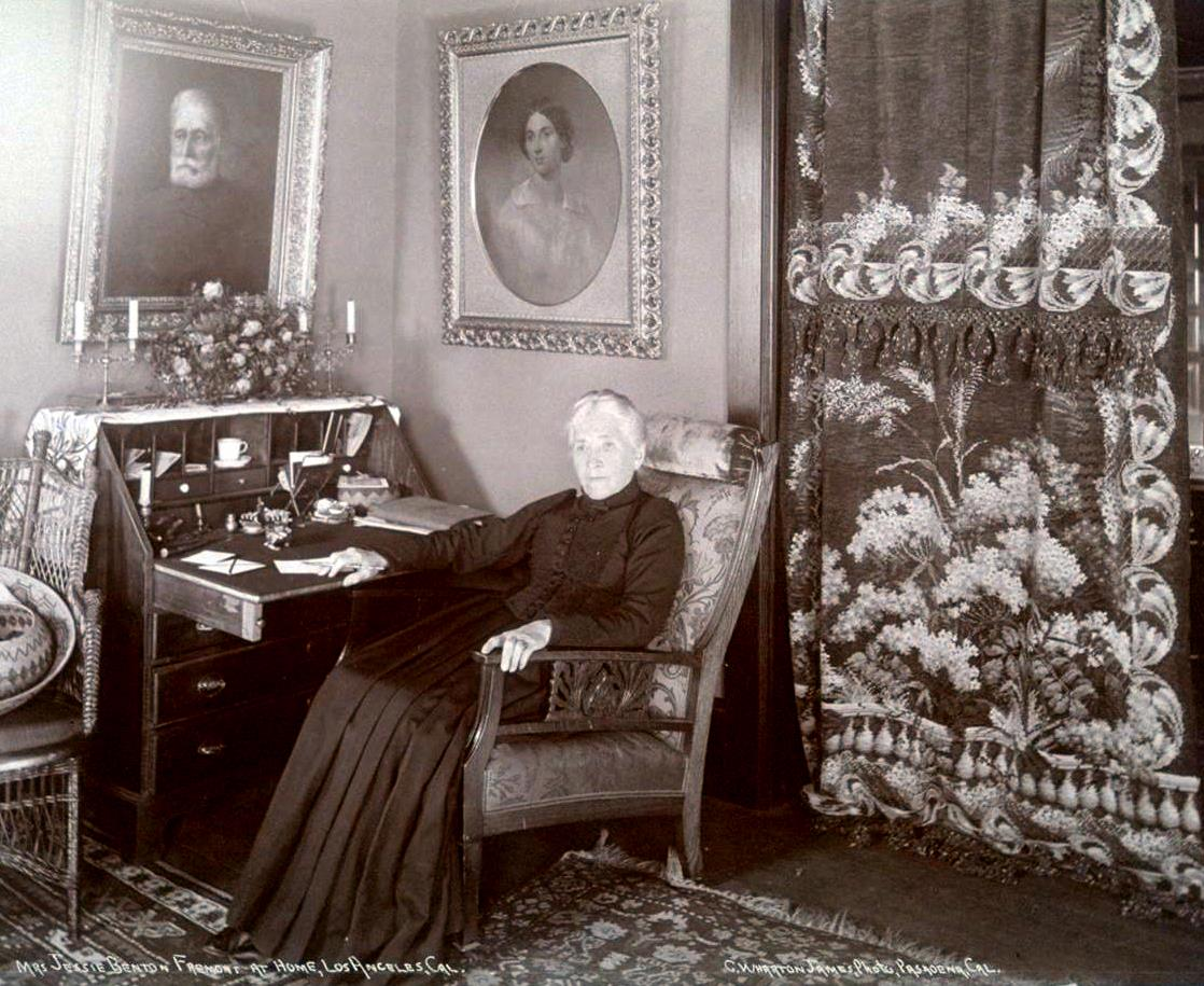 Jessie Benton Fremont at home in Los Angeles, CA